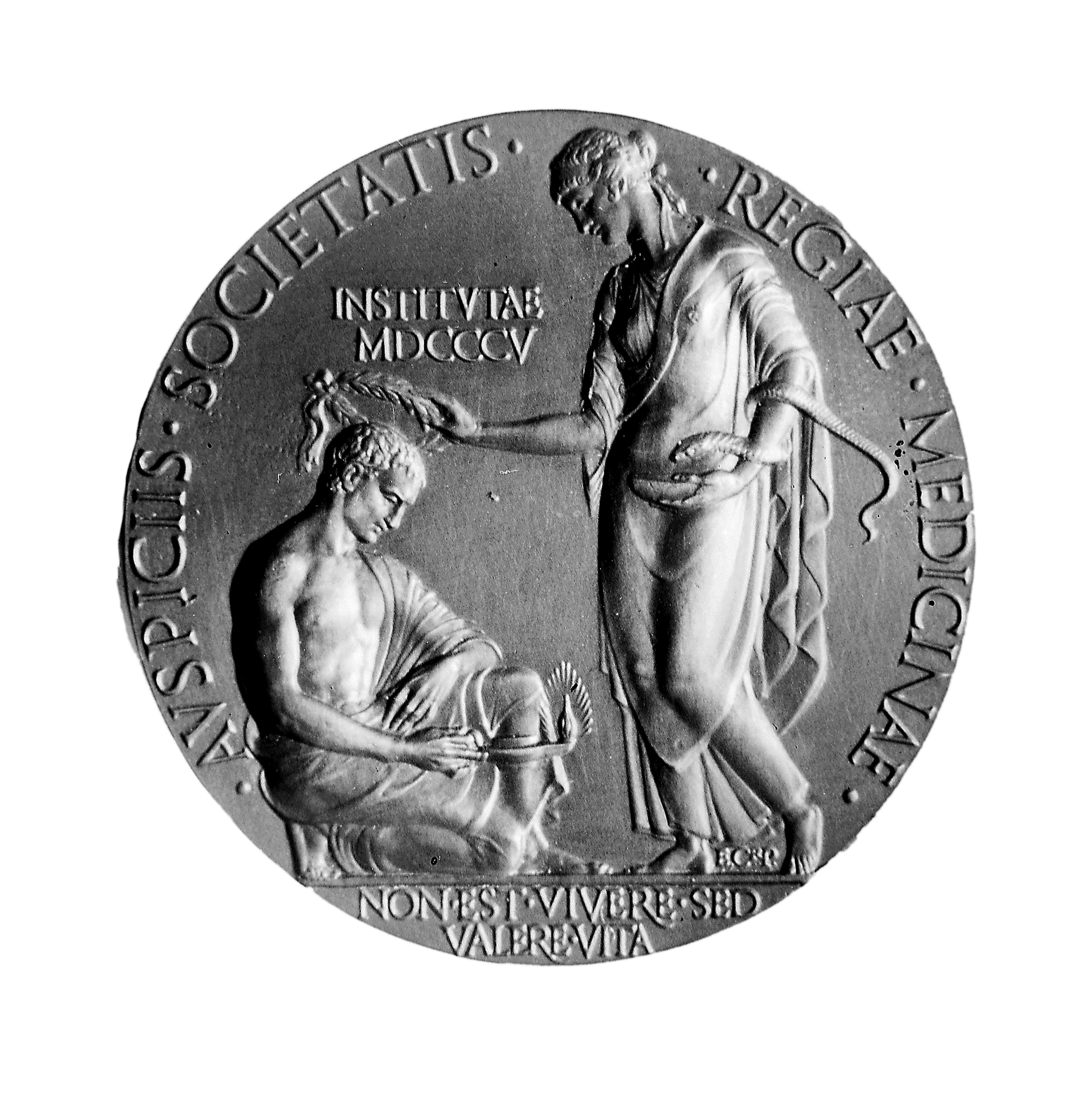 Medal made by the Royal Society, 1805, obverse Wellcome Images